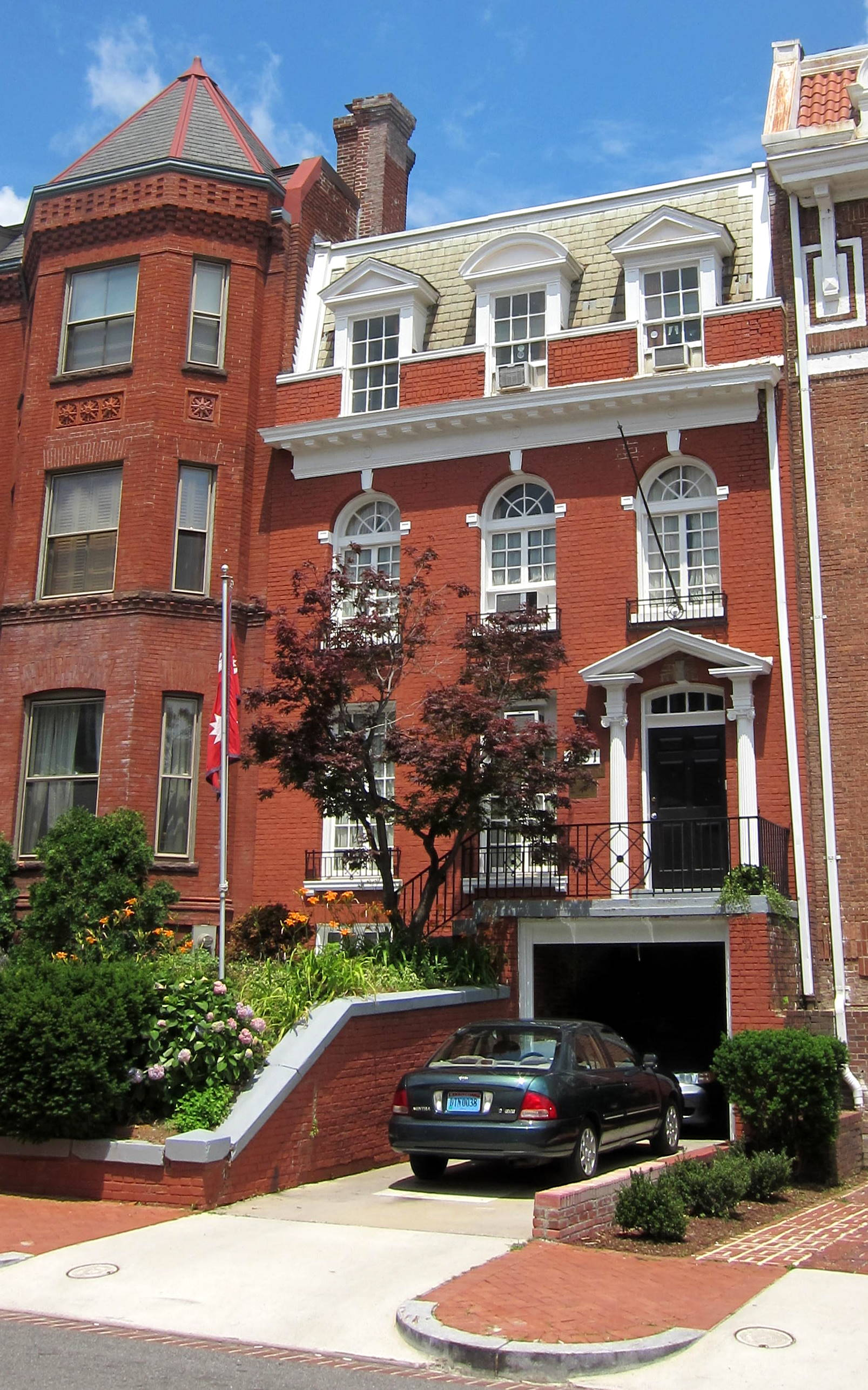 The Embassy of Nepal — located at 2131 Leroy Place, N.W., in the Sheridan-Kalorama neighborhood of Washington, D.C. Built around 1920 as a private residence, the Colonial Revival-style building is designated as a contributing property to the Sheridan-Kalorama Historic District, listed on the National Register of Historic Places in Washington, D.C. in 1989. The building previously served as offices for Congressional Digest.